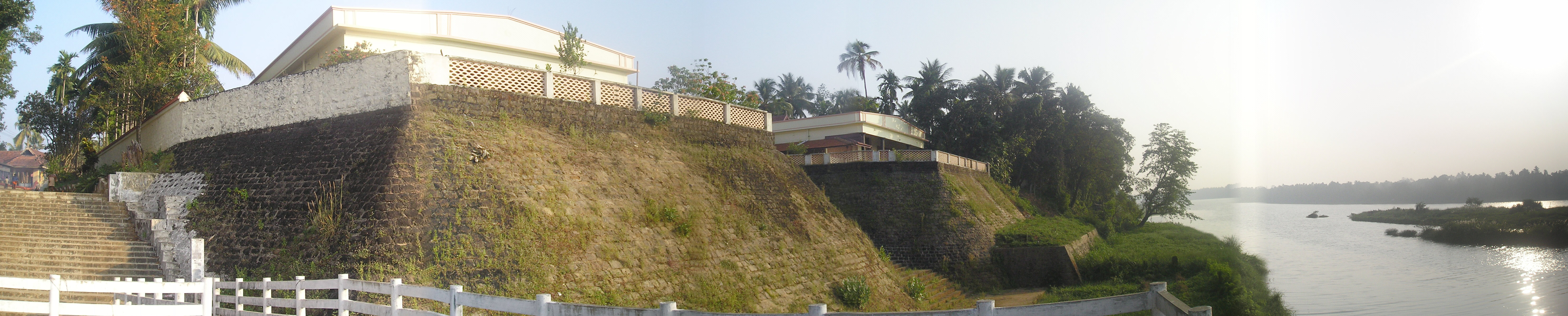 Panoramics of temples in India